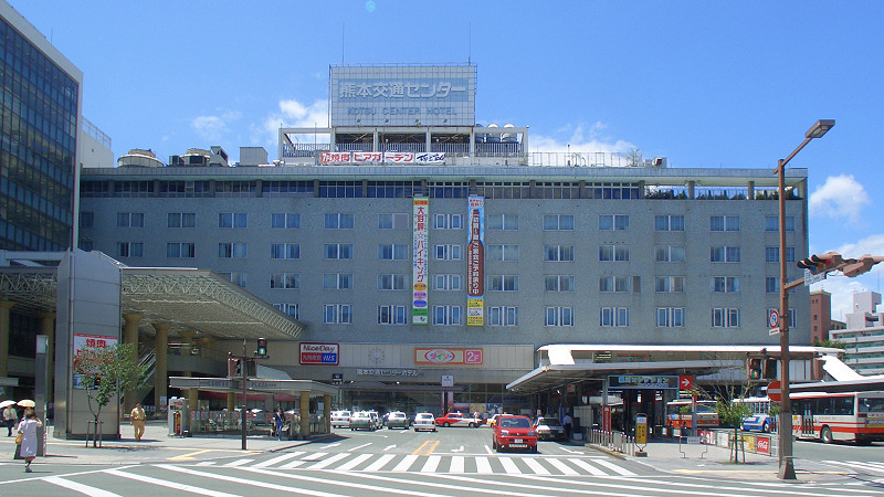 Front of Kumamoto Bus Terminal seen from east side. Kumamoto Kotsu Center Hotel above the terminal, Kenmin Department Store on the left